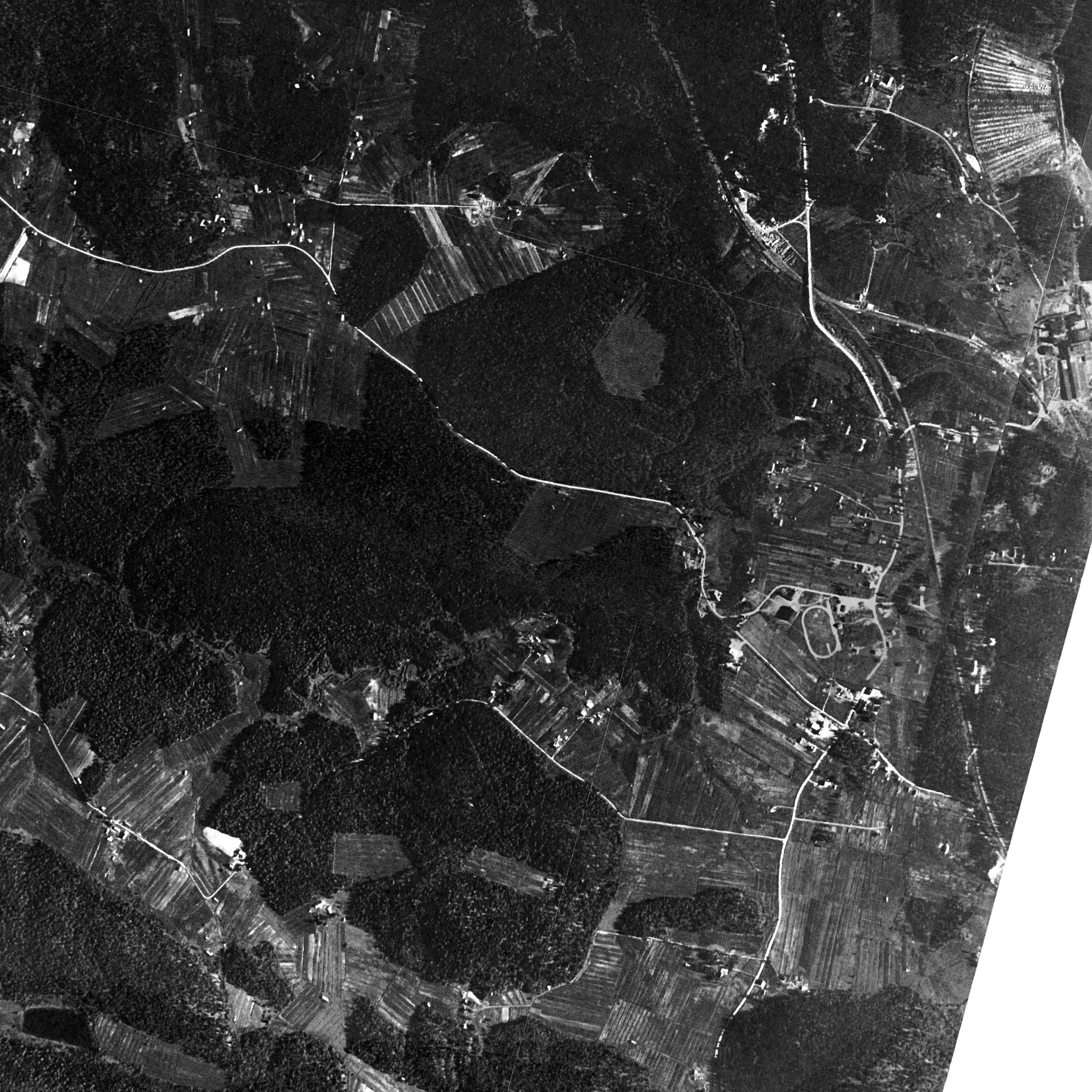 Aerial photography Harlu (7+0) 13.7.1944